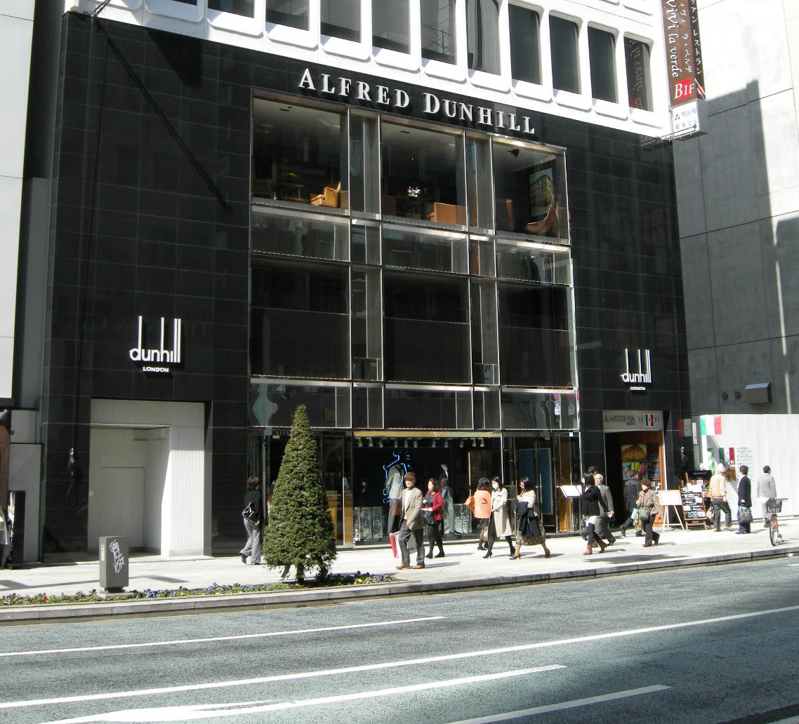 Alfred Dunhill Ginza Store in Chūō, Tokyo pref., Japan.